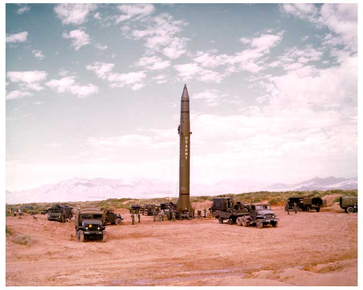 Redstone rocket photograph without description.